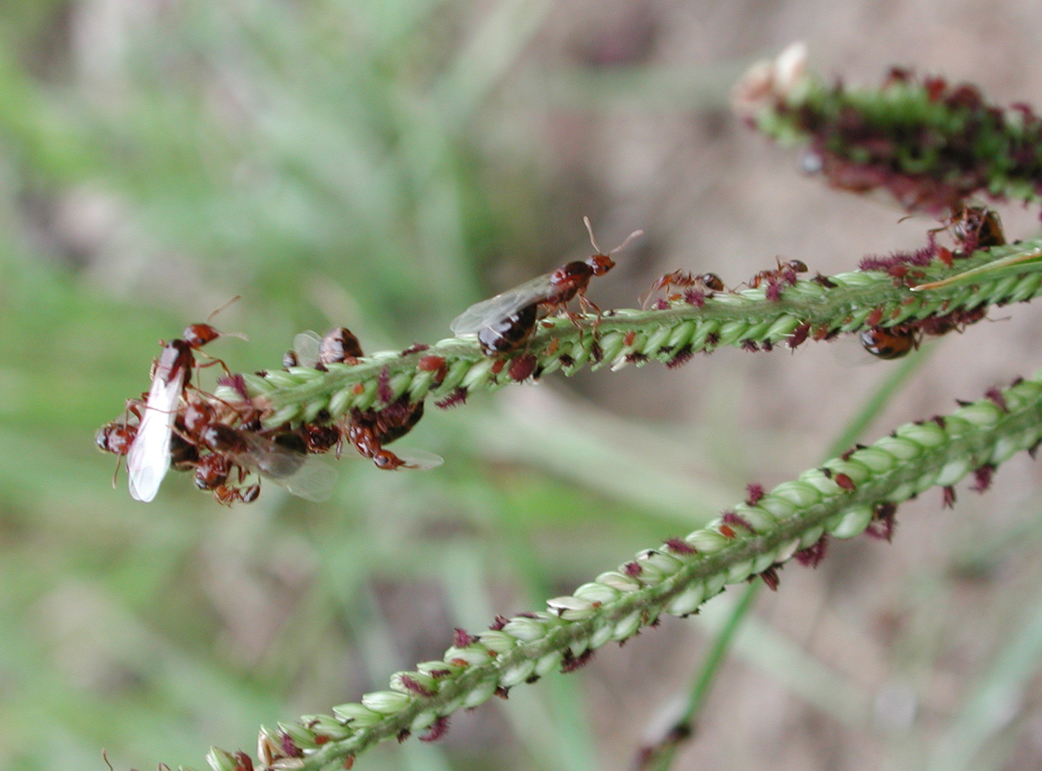 Fire ant queens ready for flight. Hemingway, South Carolina